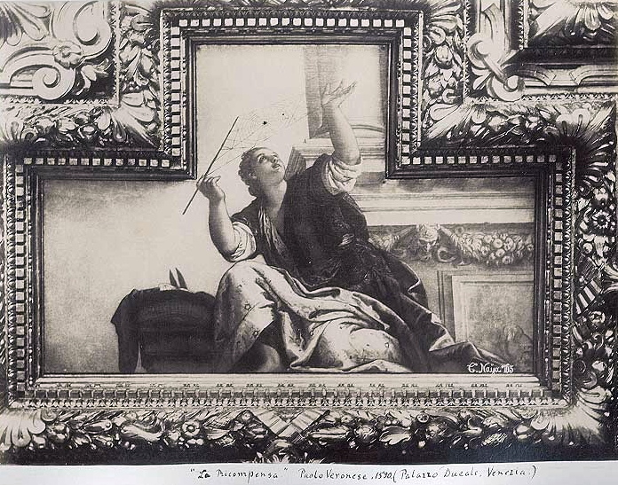 Carlo Naya (1822-1881) - "The reward - Paolo Veronese - 1520 (Doge's Palace, Venice)". Catalogue # 105.